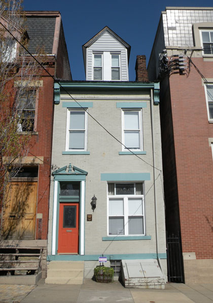 Picture of the Ferris House (the former house of George Washington Gale Ferris, Jr.) located at 1318 Arch Street in the Central Northside neighborhood of Pittsburgh, Pennsylvania, on April 10, 2010. Likely built in the mid to late 1800s, the house is on the List of City of Pittsburgh historic designations. The sign on the front of the house says, "George Ferris Home - Inventor of the Ferris Wheel 1893".